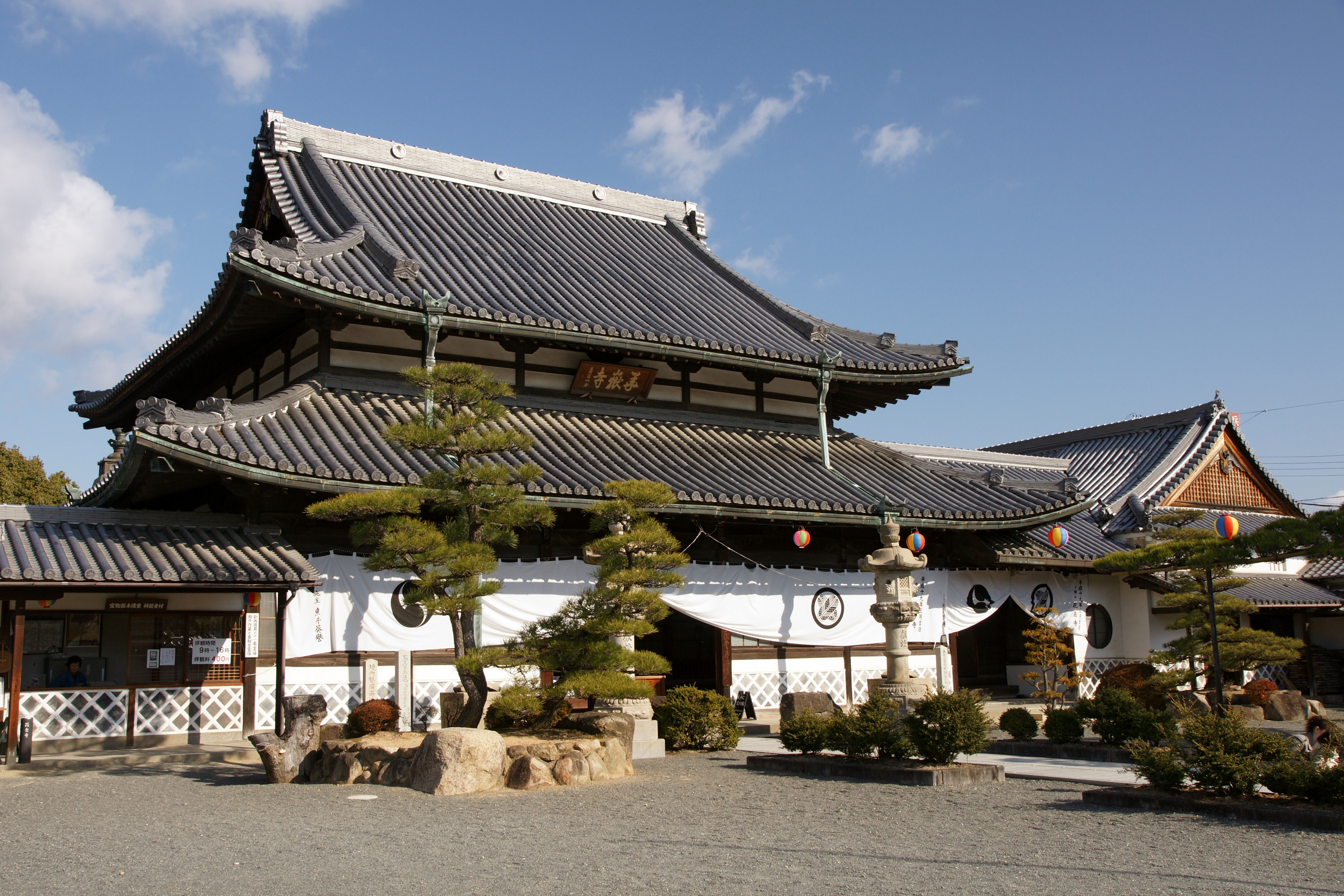 Kagakuji in Akō, Hyogo prefecture, Japan